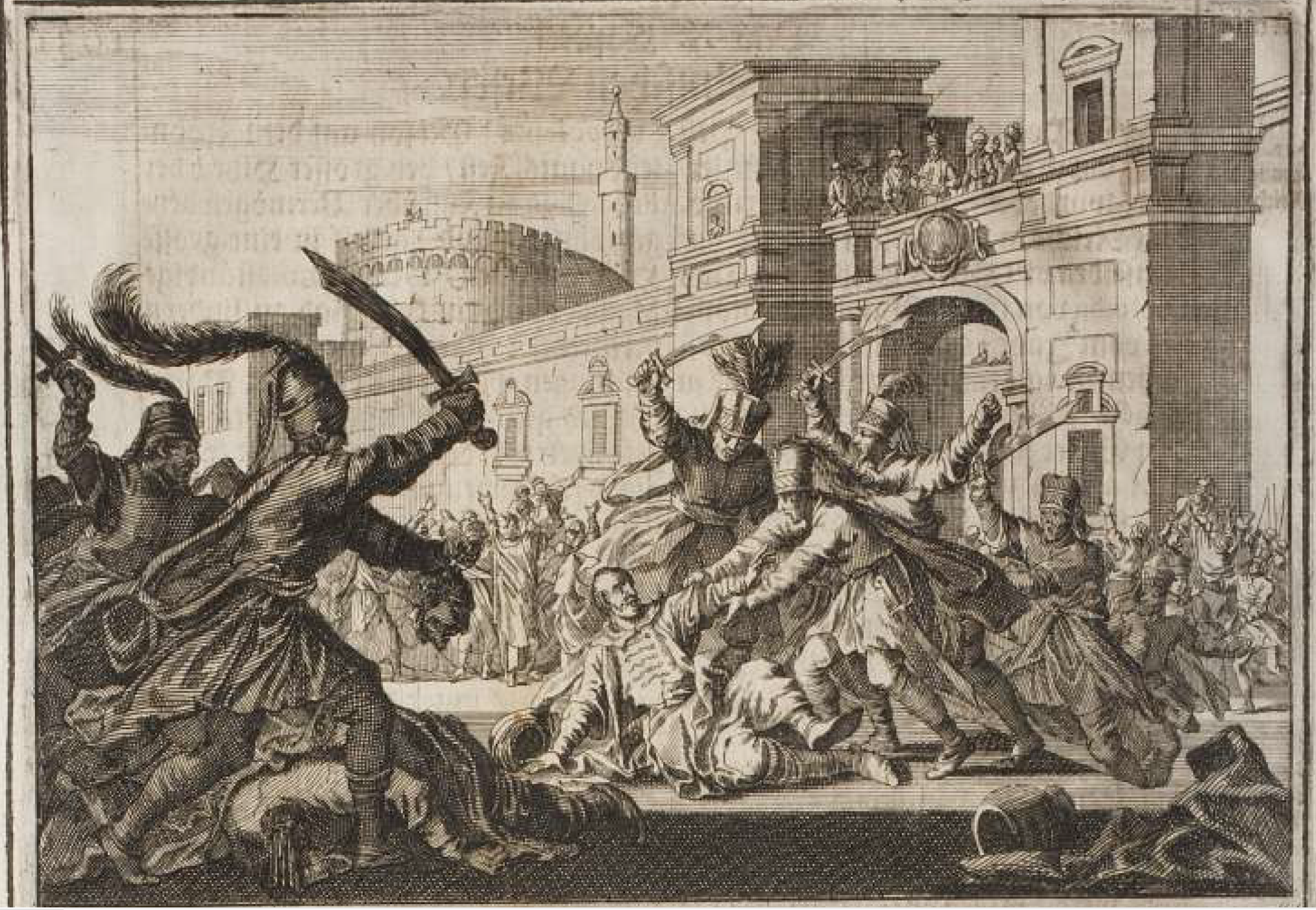 Death of vezir Müezzinzade Hafız Ahmet Paşa during Revolt of janissaries in 1632